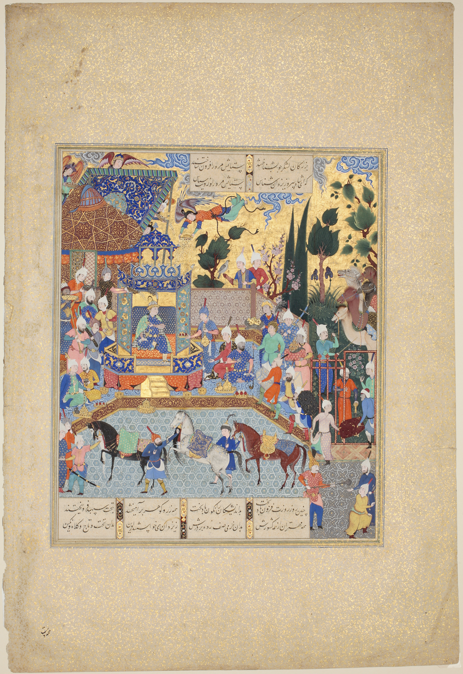 Folio from the Copy of Firdawsi ‘s Shahnamah Made for Shah Tahmasp (Houghton Shahnamah), Tabriz, Iran,1520s – 1540s. From the Nasser D. Khalili Collection of Islamic Art.